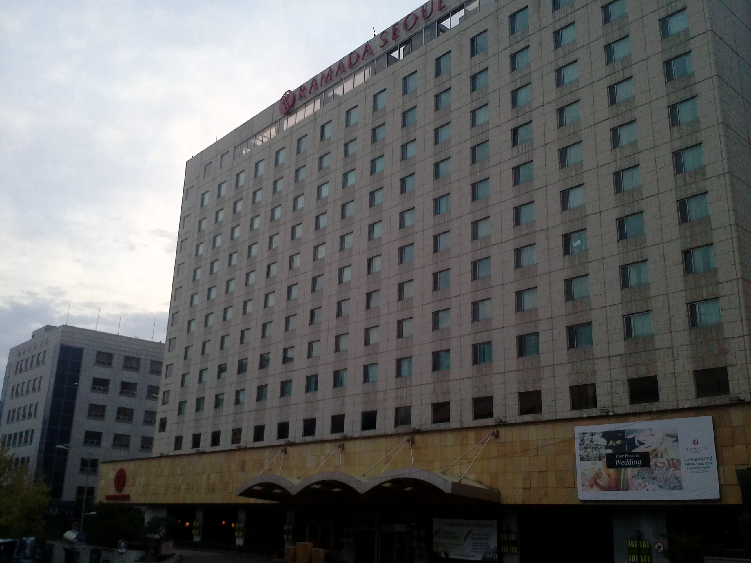 Ramada Seoul Hotel - 112-5, Samsung-Dong, Kangnam-Gu, Seoul, Korea